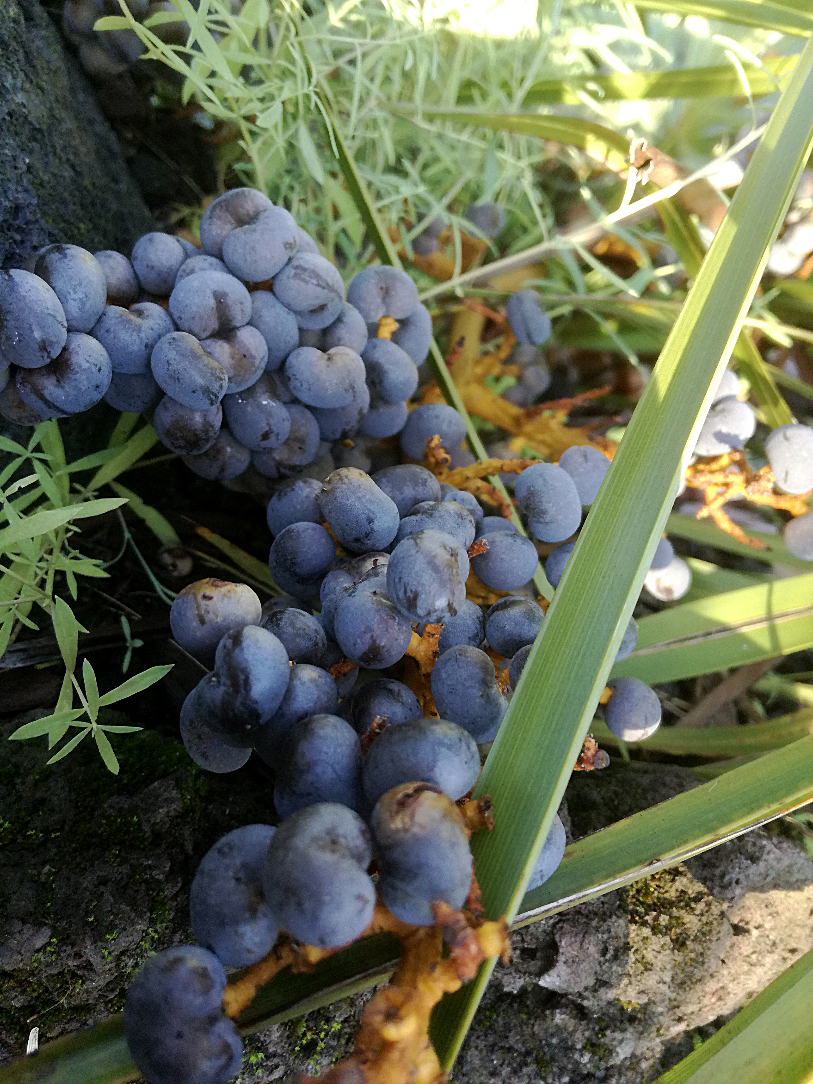 Fruit of Trachycarpus nanus, Botanical Gardens, University of Düsseldorf HHU, Germany, Dec. 2016